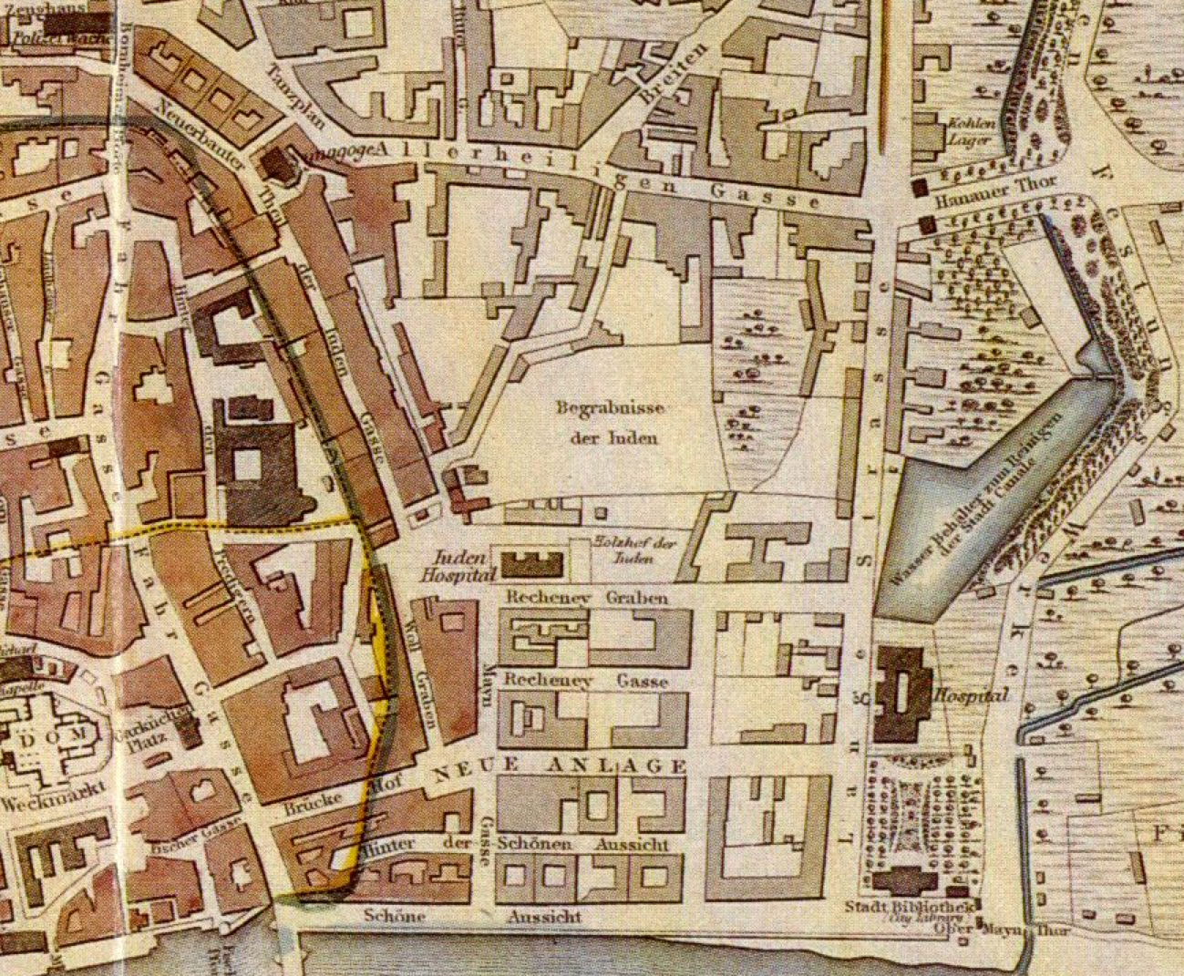 crop of historical British drawing of about 1840, city of Frankfurt am Main, Hesse, Germany, focus on old jewish cemetery from 1180, Judengasse, Judenmarkt